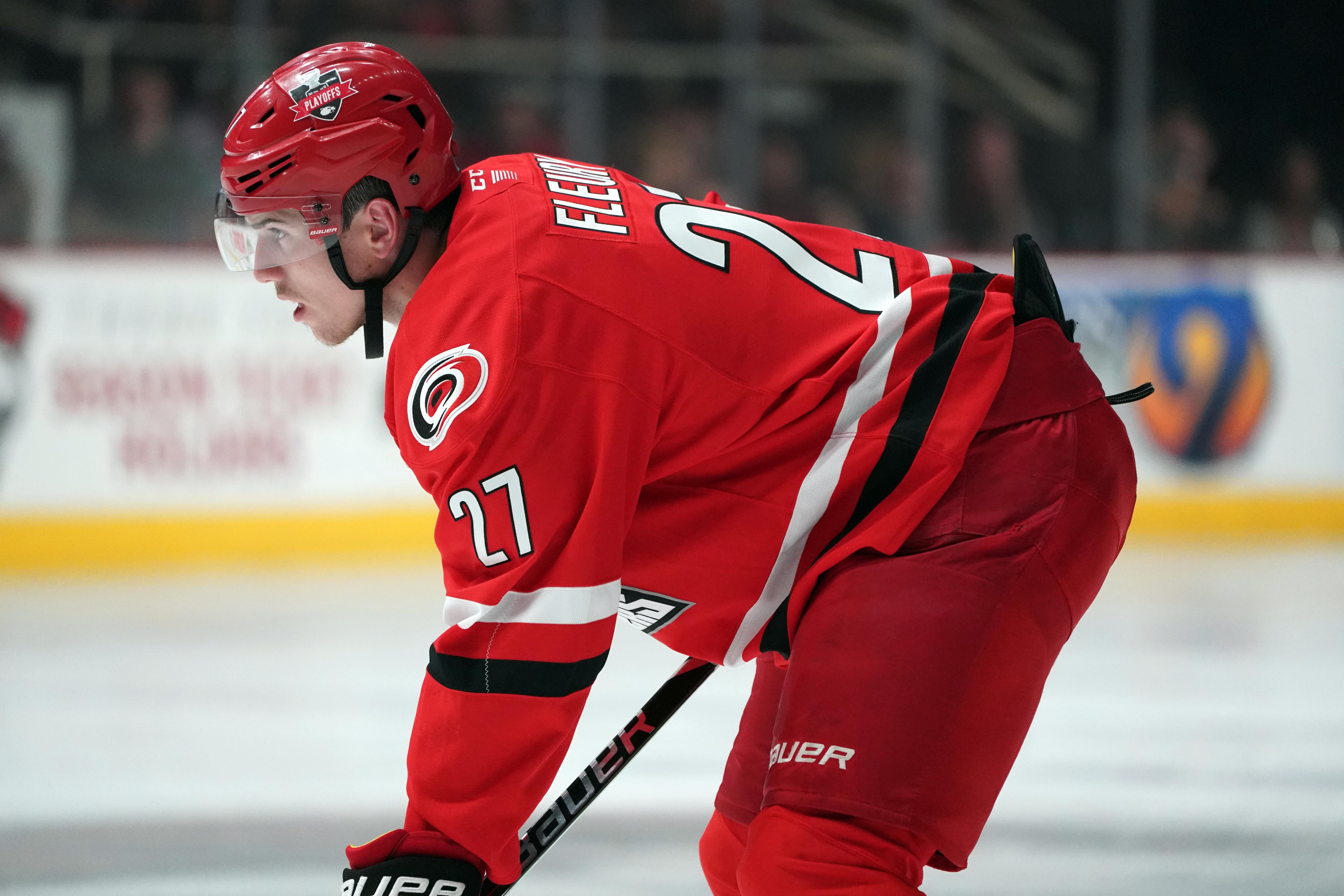 Photo: Gregg Forwerck